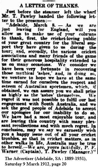 from the National Library Australian newspapers digitisation program which are pre-1955 so no copyright: "The service includes newspapers published in each state and territory from the 1800s to the mid-1950s, when copyright applies."